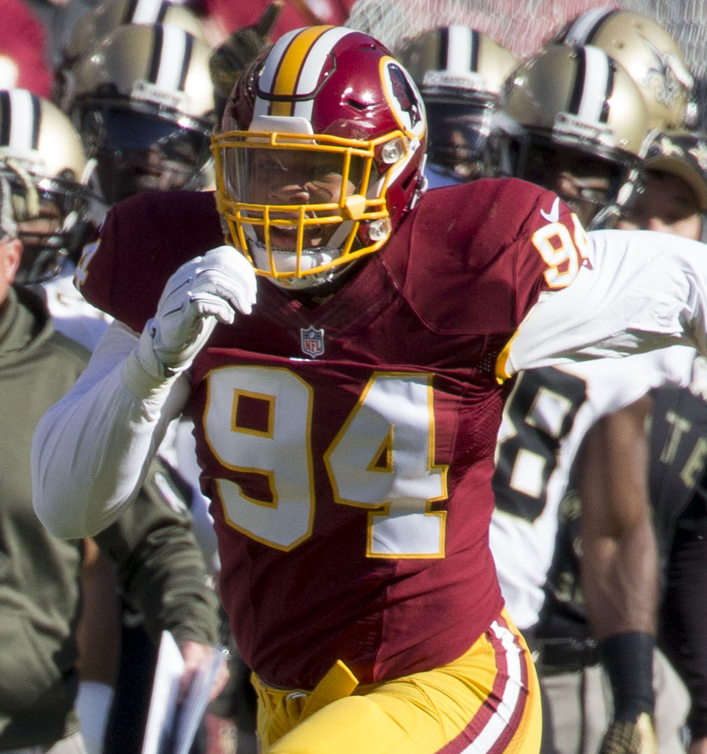 Washington Redskins outside linebacker, Preston Smith, playing against the New Orleans Saints on November 15, 2015.